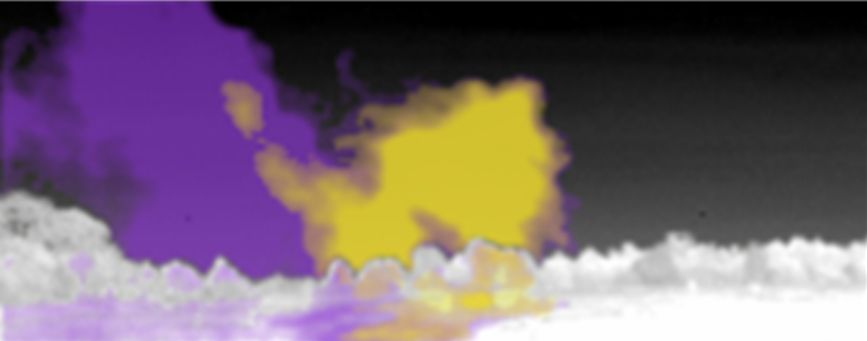 Density map of a SF6 (Sulfur hexafluoride) and NH3 (ammoniac) release at 1.5km over a brightness temperature map